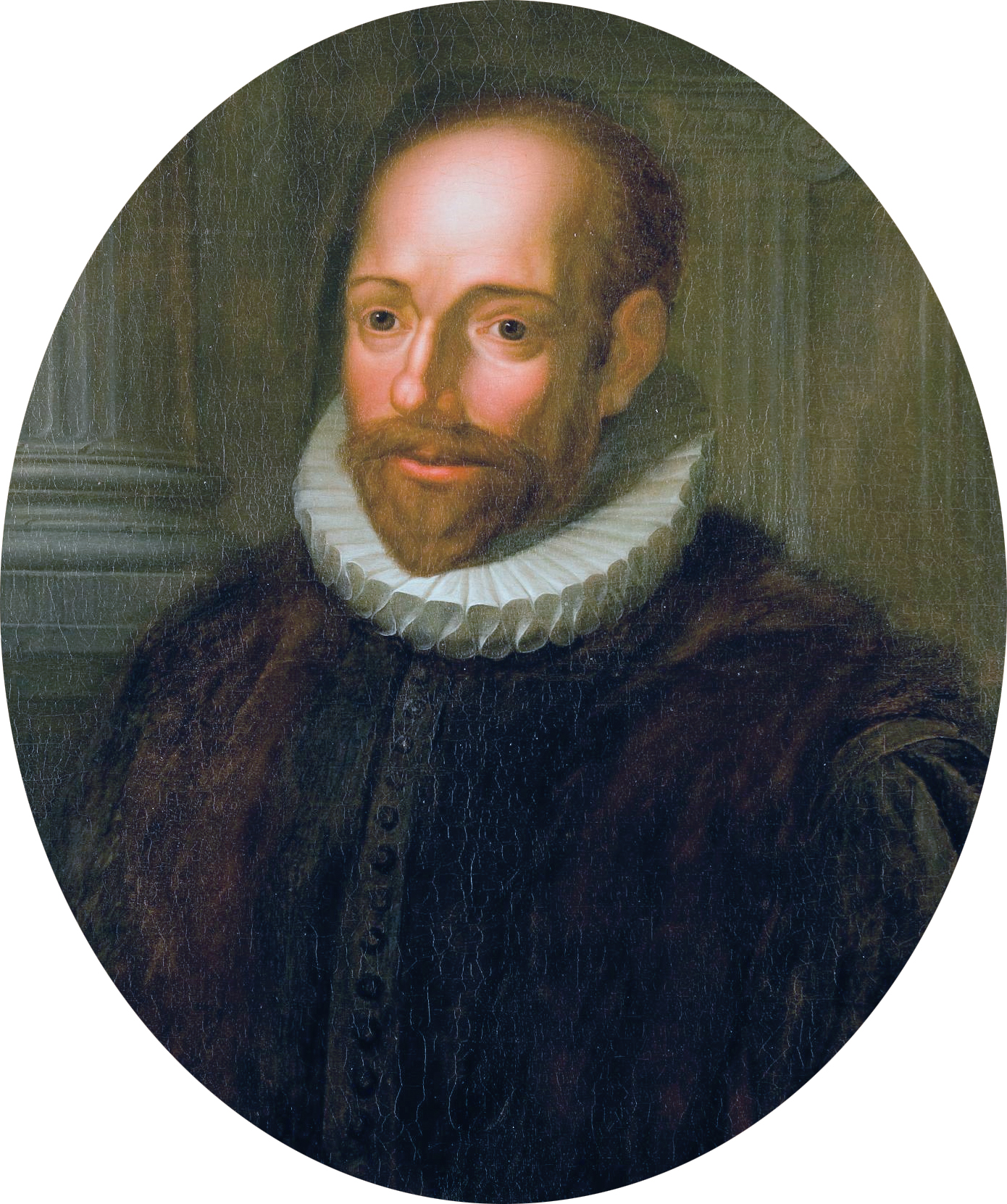 Jacobus Arminius oil on panel